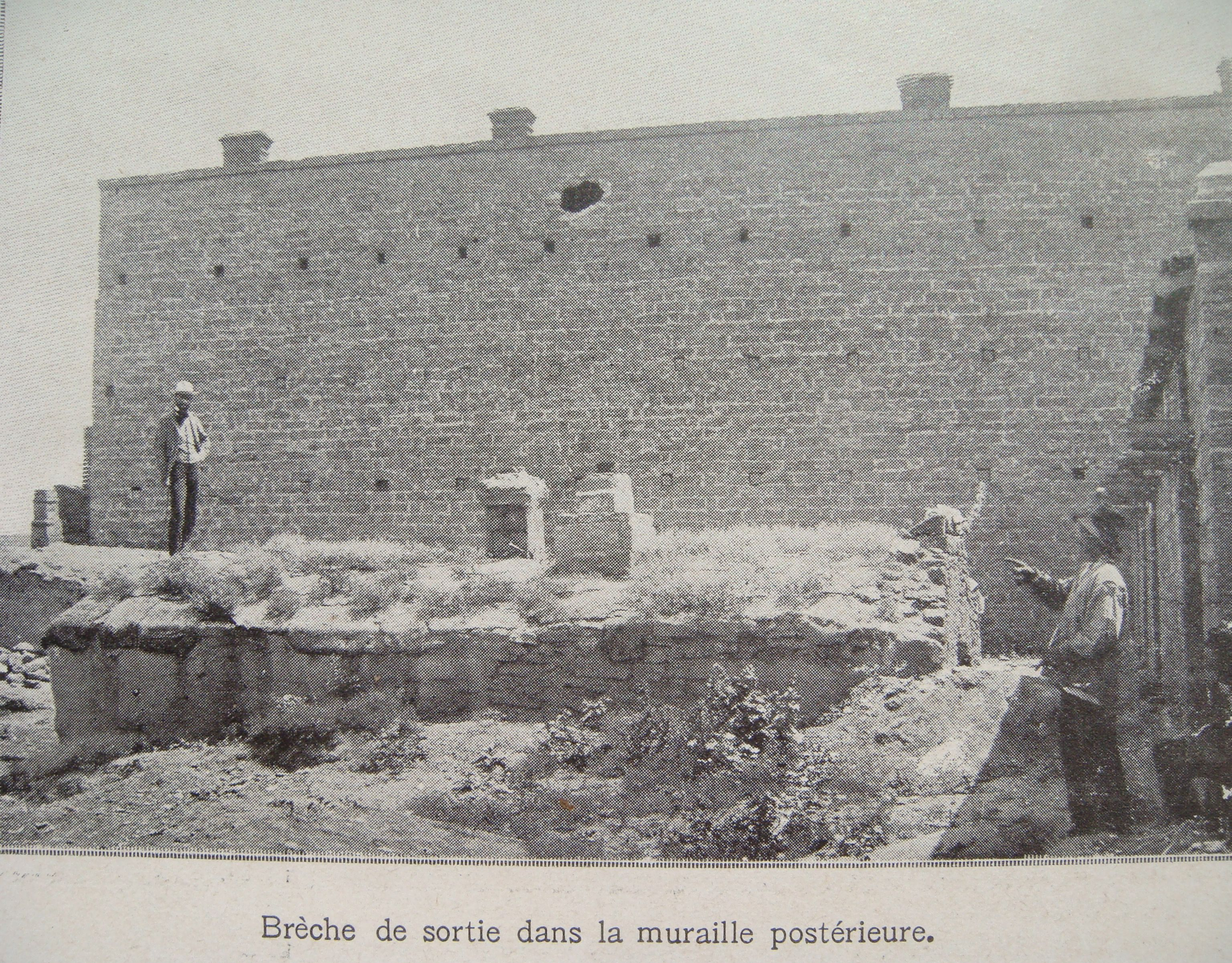 Potemkin mutiny. Strepov's building at Bugaevskaya street hit by gunfire of Potemkin. Rear view.